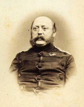 Ferdinand Carl Adolph Bauditz (1811-1866), Danish Colonel